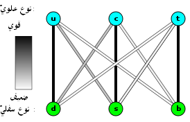 Pictorial description of quark weak interactions. The color of the lines between the quarks (u, c, t, d, s, b) indicates the strength of the weak coupling between these flavors. I.e. they represent the magnitudes of the components of the CKM matrix. The CKM matrix values were obtained from "C. Amsler et al. (2008). "Review of Particles Physics: The CKM Quark-Mixing Matrix". Physics Letters B667 (1): 1–1340."